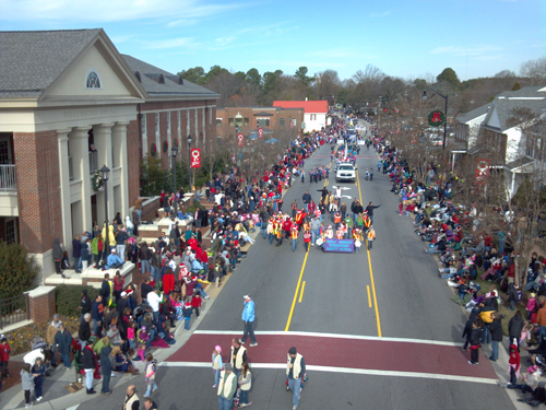 The Christmas parade travels through downtown Holly Springs, NC